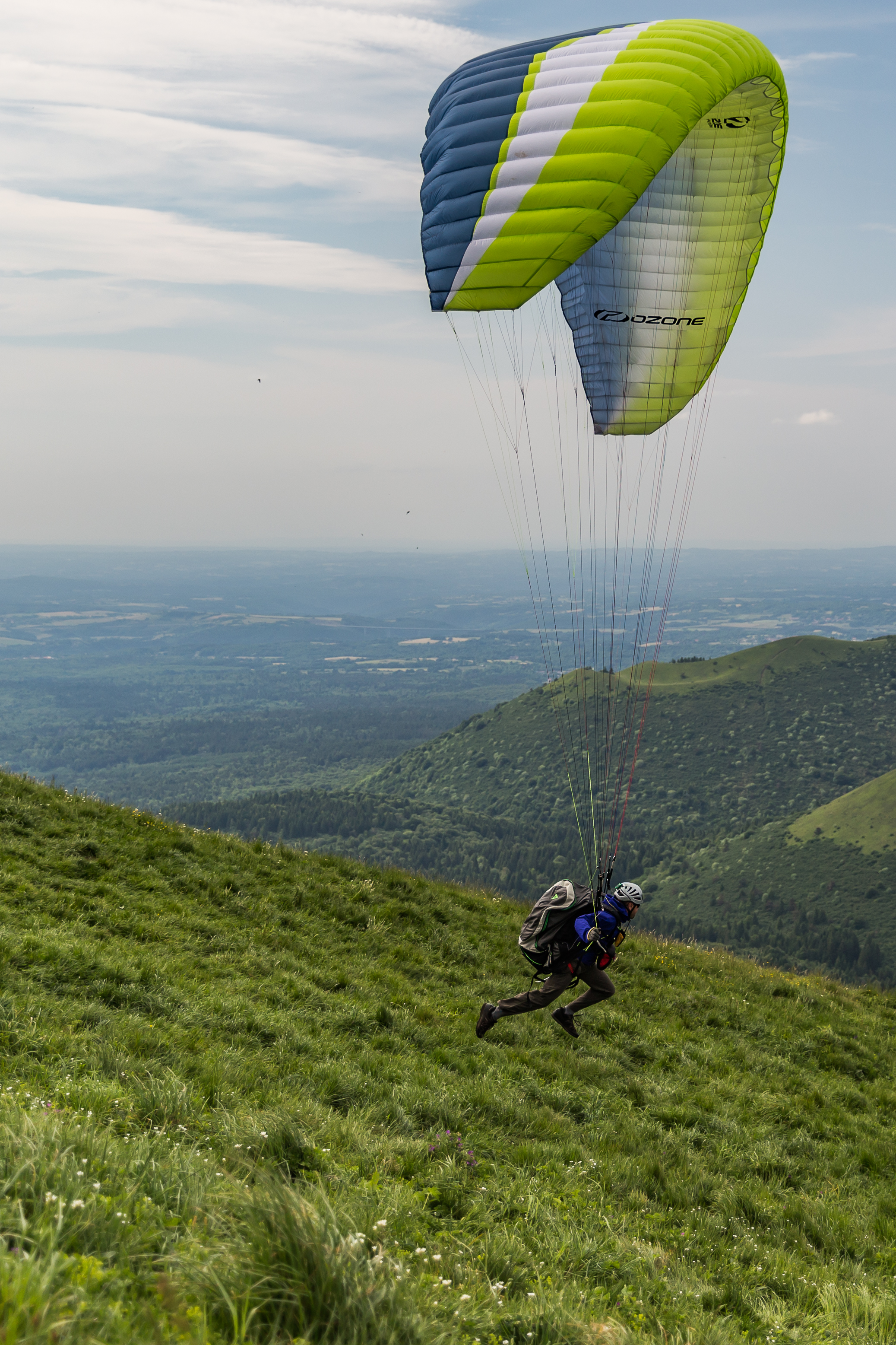 Takeoff of a paraglider in puy de Dôme.